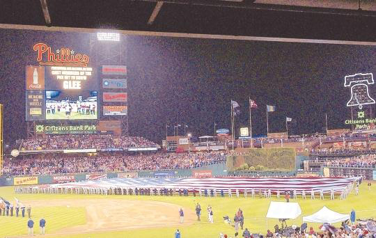 U.S. flag during the national anthem before Game 3 of the 2009 World Series at Citizens Bank Park